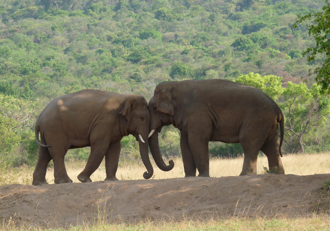 Asian Elephants of Coimbatore Forests, Tamil Nadu, India